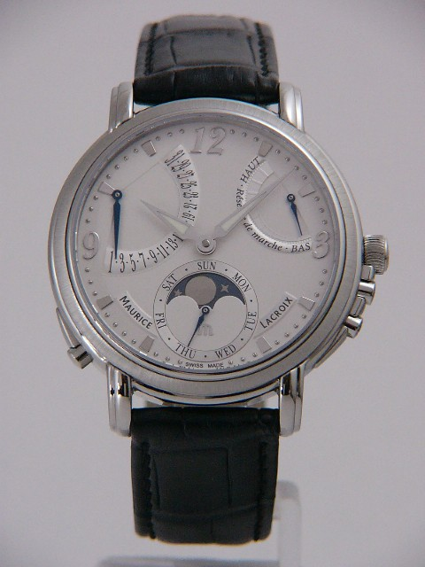 Maurice Lacroix Masterpiece Lune Rétrograde MP7078-SS001-120